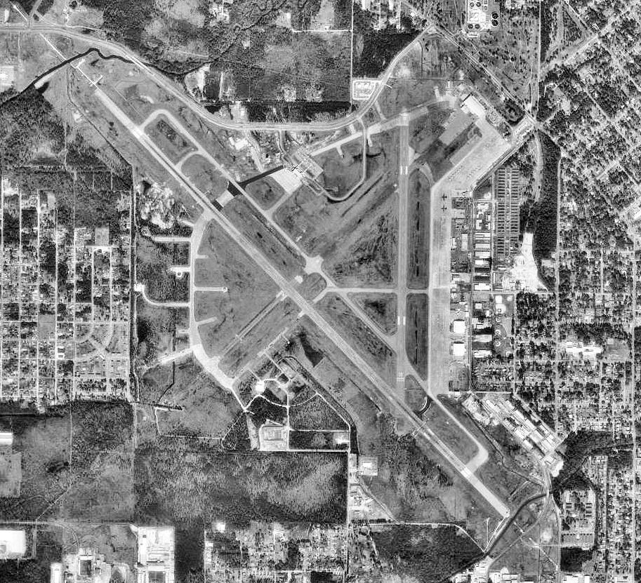 Aerial image of Gulfport-Biloxi International Airport, Mississippi